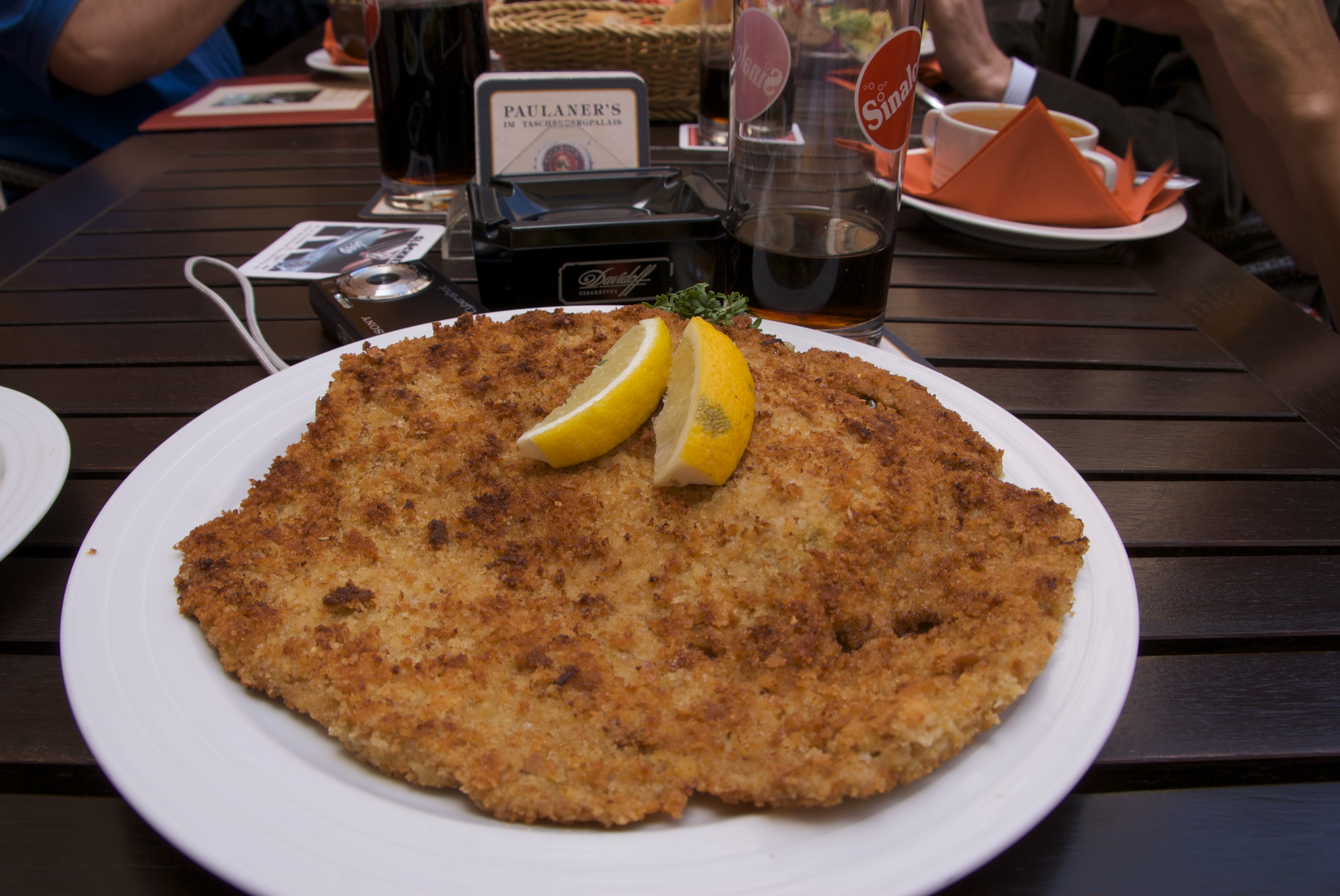 Wiener schnitzel